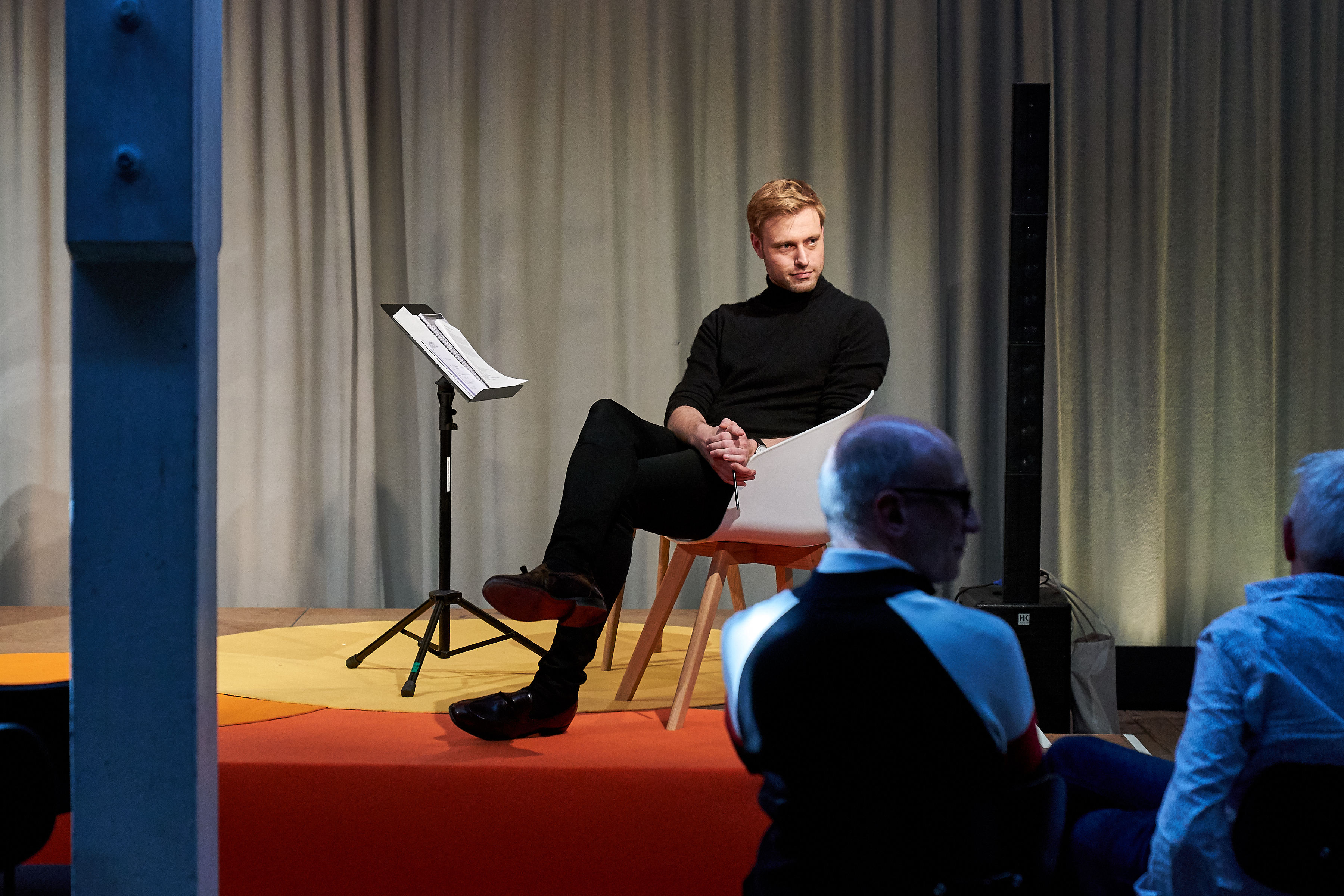 Benjamin Appl – © Benno Hunziker